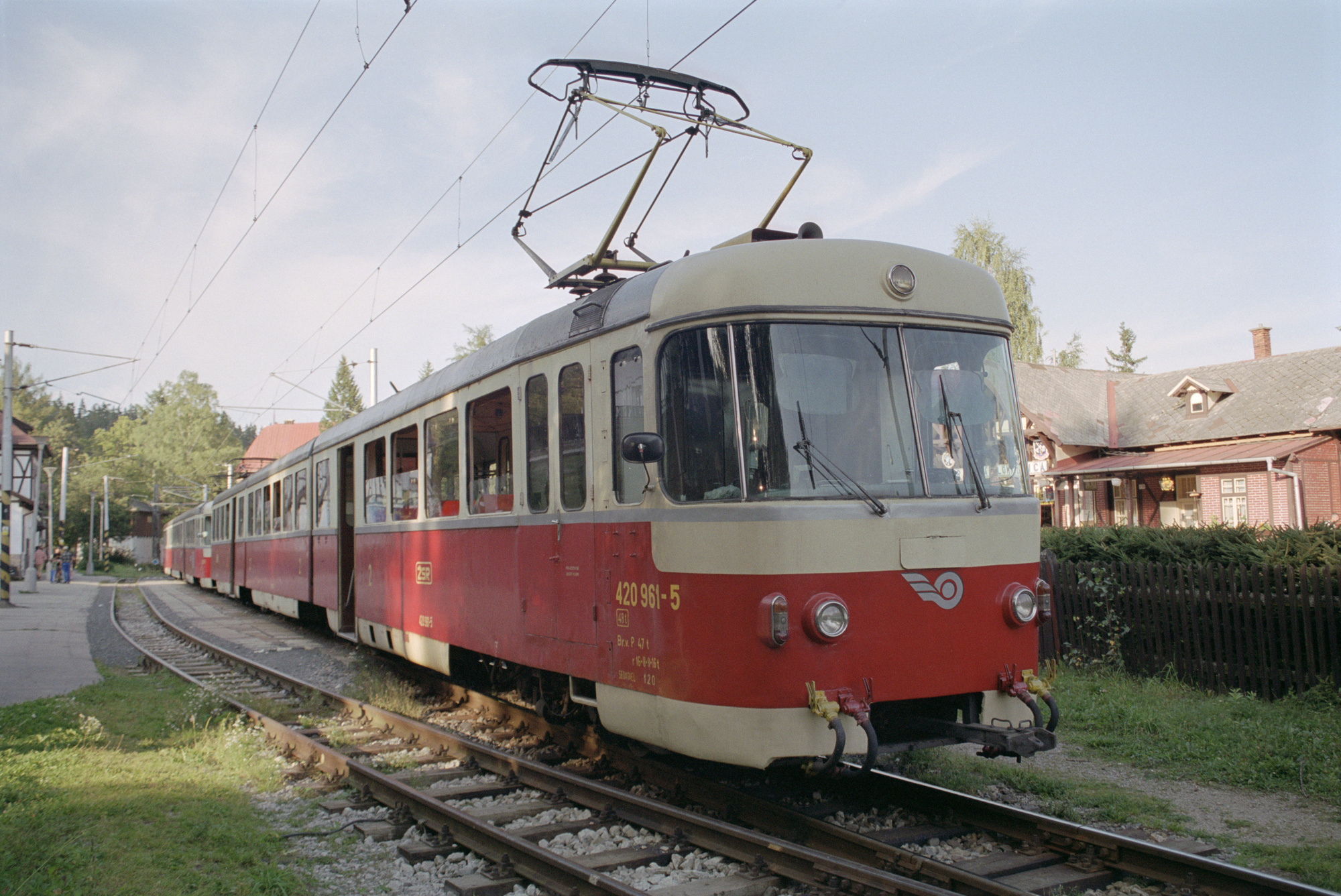 train of the Tatra electric railway in the trainstation of Tatranská Lomnica own picture, taken in summer 2000